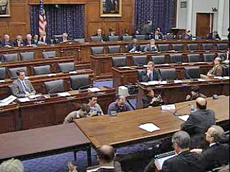 A House Financial Services Committee hearing with Federal Reserve Chairman Ben Bernanke. This is from the February 10, 2009 hearing. This image was taken by a screenshot on a computer when viewing the internet video stream of this hearing. Then the Gimp image editing program was used to crop everything except what is seen in the image. The official website for this hearing is at: The video stream is linked there.